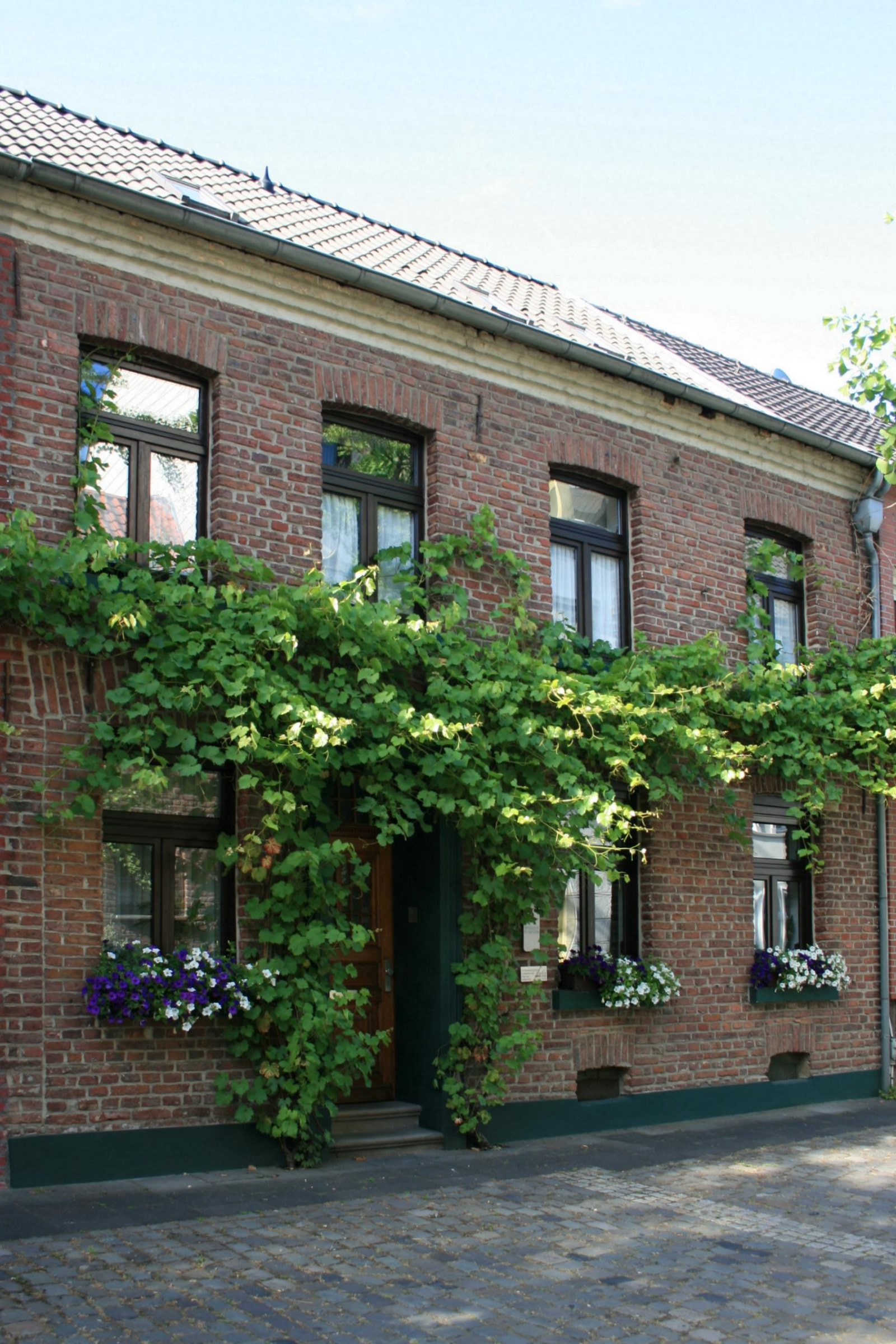 Cultural heritage monument No. St 008 in Mönchengladbach